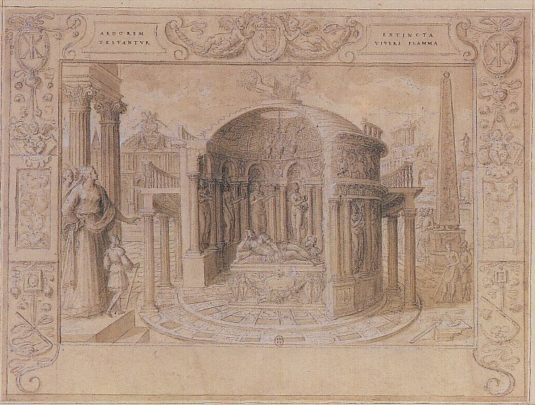 Story of Queen Artemis: The Monument. Pen, brown and black ink, wash, white highlights over chalk. 40 × 55 cm. Bibliothèque Nationale, Paris. This is one of a series of tapestry designs on the theme of Artemisia, the legendary queen whose iconography was adopted by Catherine de' Medici, both queens being regents on behalf of their children and immortalising their dead husbands in grandiose architectural projects. The drawing depicts a circular mausoleum, suggestive of the Saint-Denis rotunda Catherine commissioned in 1563 as a setting for the tomb of her dead husband, Henry II, and herself (Chastel, 257–58).